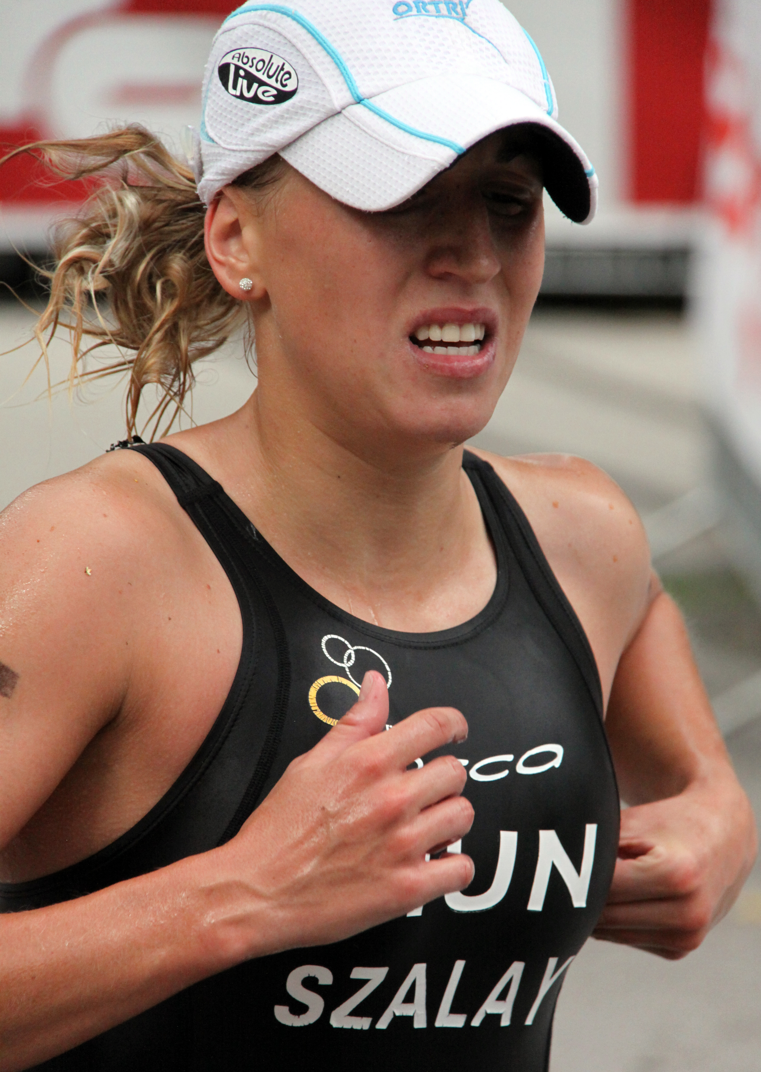 The Hungarian triathlete Szandra Szalay at the World Championship Series triathlon in Kitzbühel, 2010.